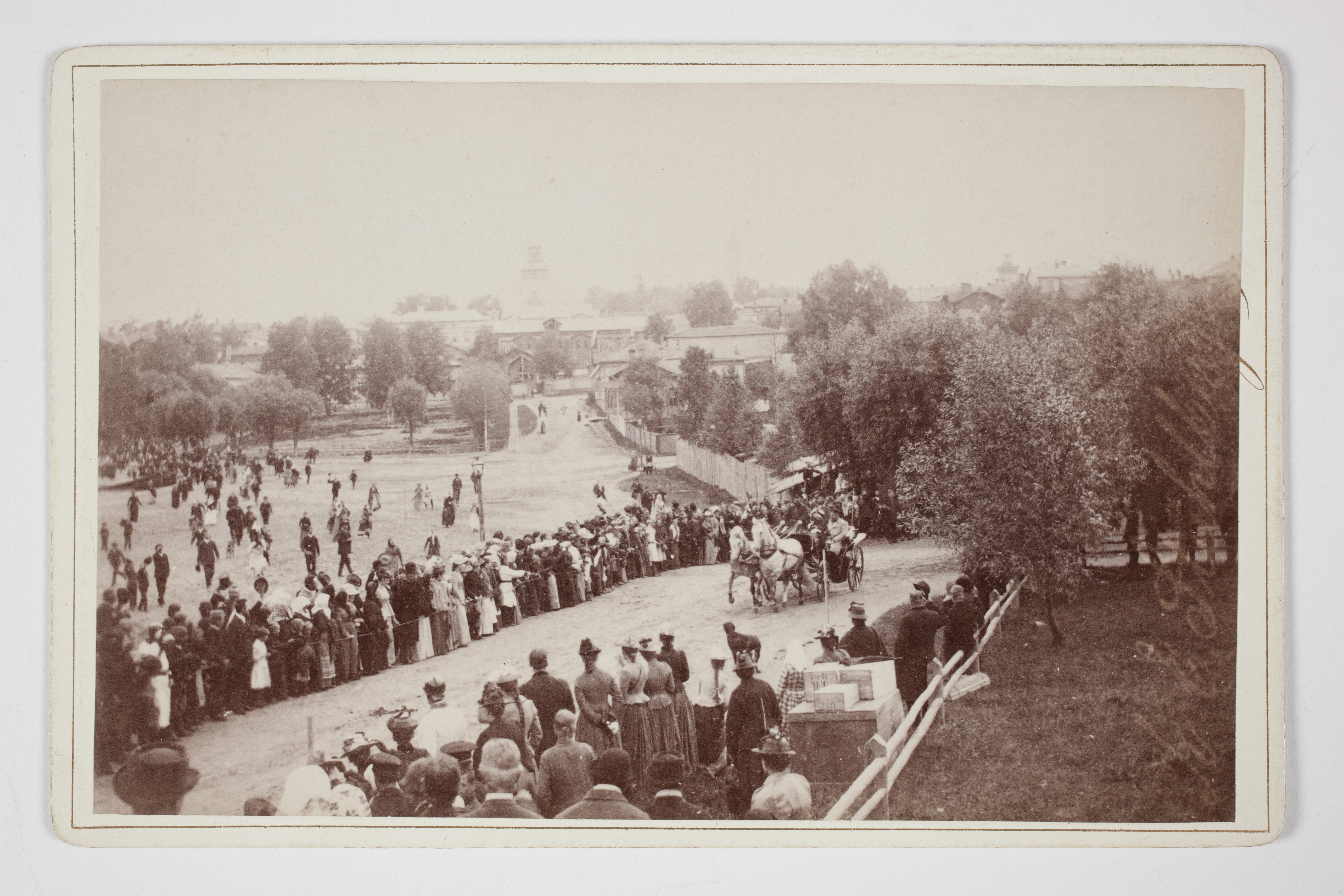 Kejsarbesök i Villmanstrand 1891 kabinettkort Foto: Atelier K. E. Ståhlberg Helsingfors, Finland Svenska litteratursällskapet i Finland